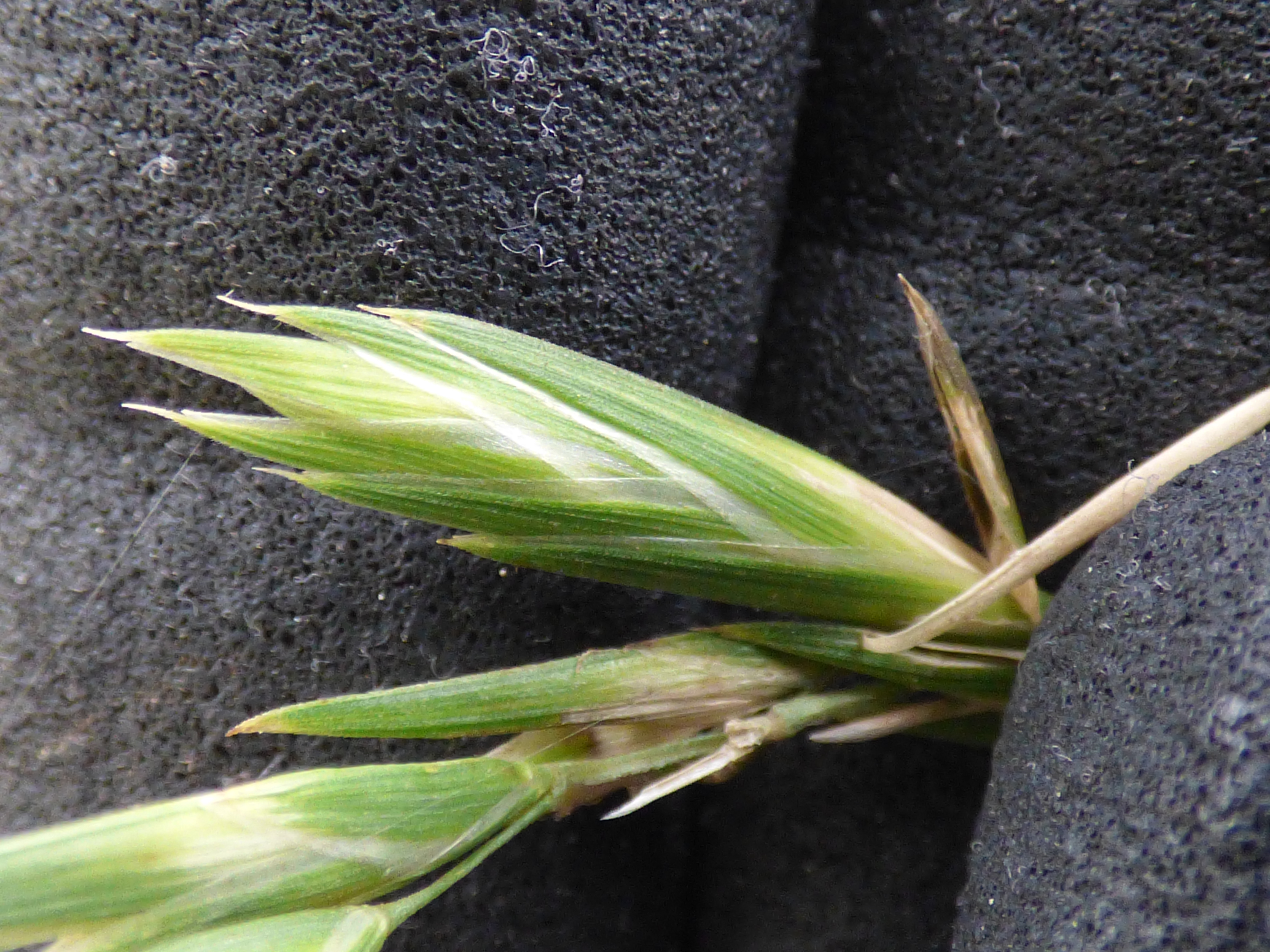 Bromus catharticus (Rescue grass) Seedhead at Corner Near Gym Town Sand Island, Midway Atoll, Hawaii. June 29, 2017 #170629-0337 Image Use Policy Also known as Bromus willdenowii.